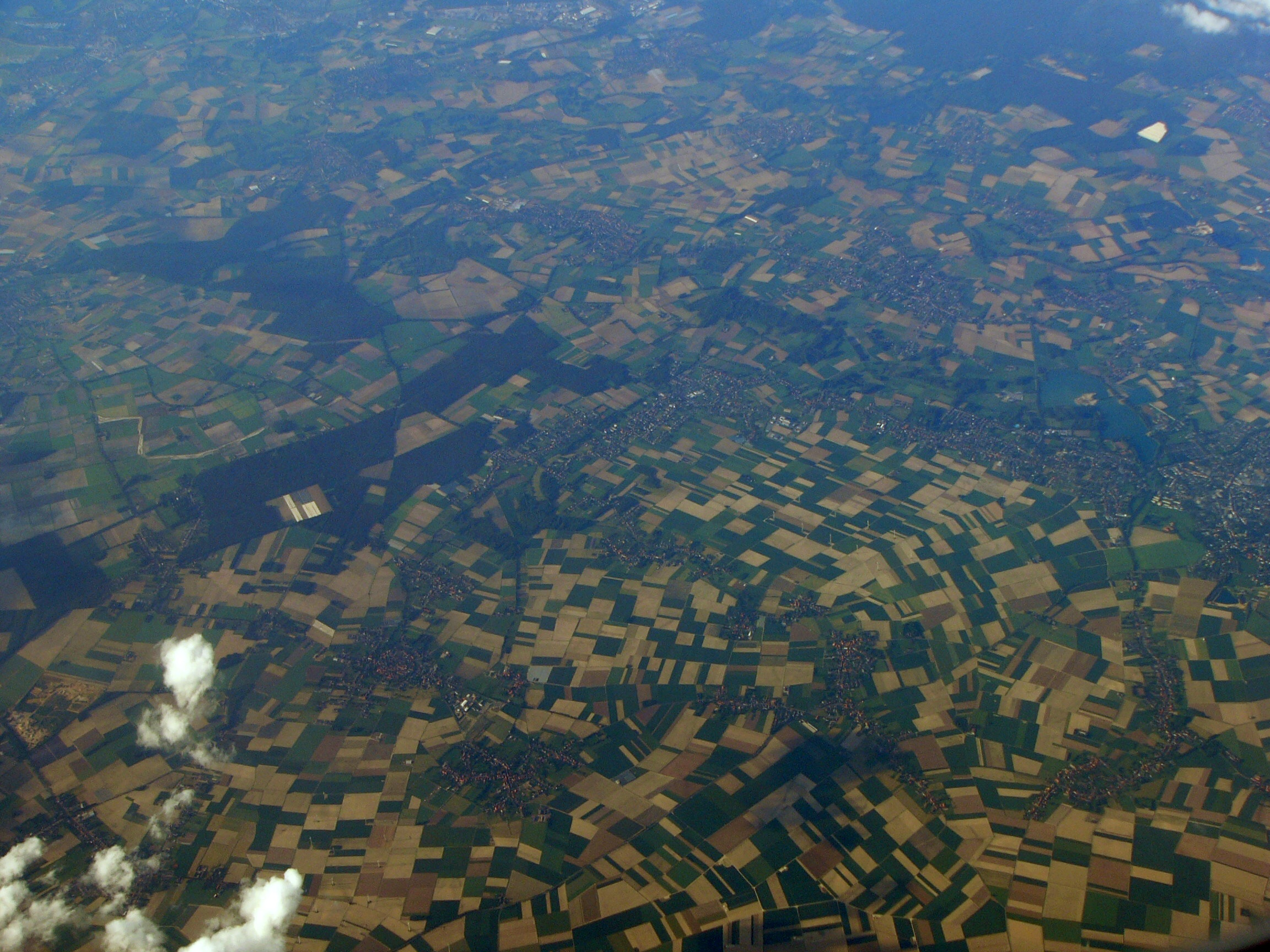 Photo of Waldfeucht in Germany from the plane. It is on the Netherlands / Germany state border.